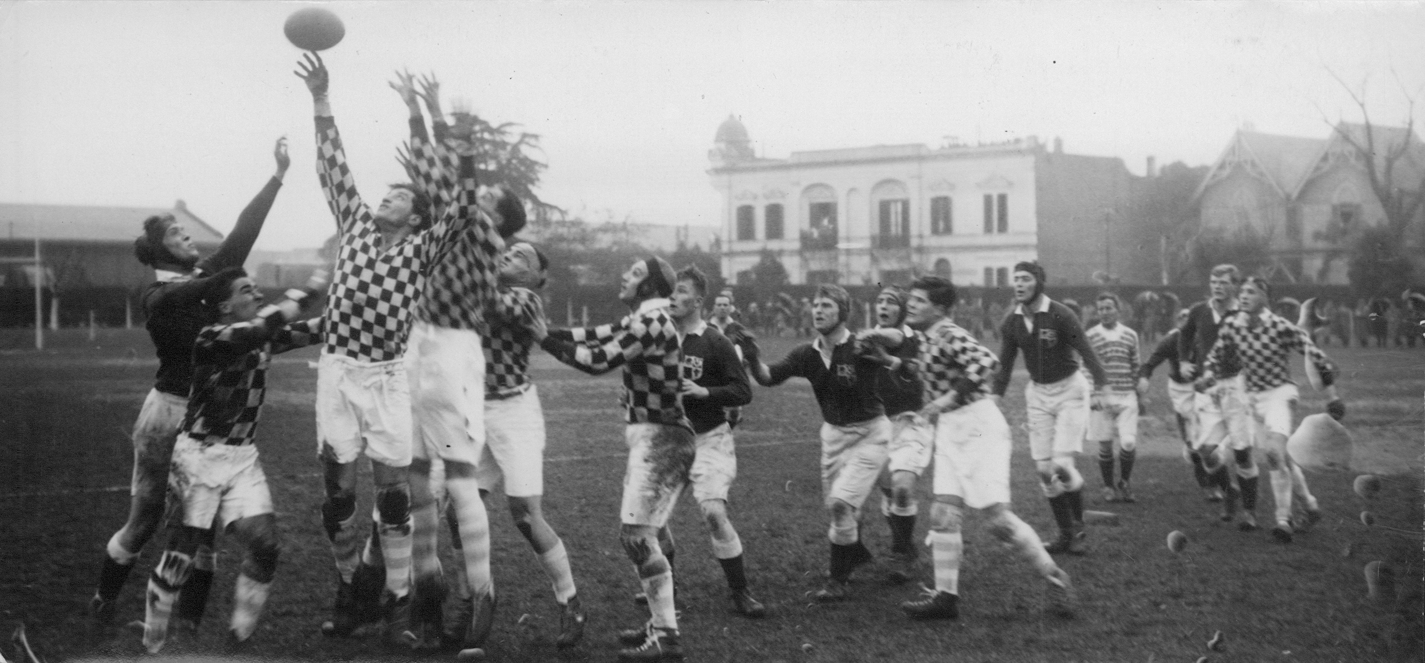 Scene from the rugby union match between the British Lions and a combined team (formed by players of GEBA and Universitario BA, in squared jerseys) as part of the British tour on Argentina. The game was played at Plaza Jewell, venue of Club Atlético del Rosario.